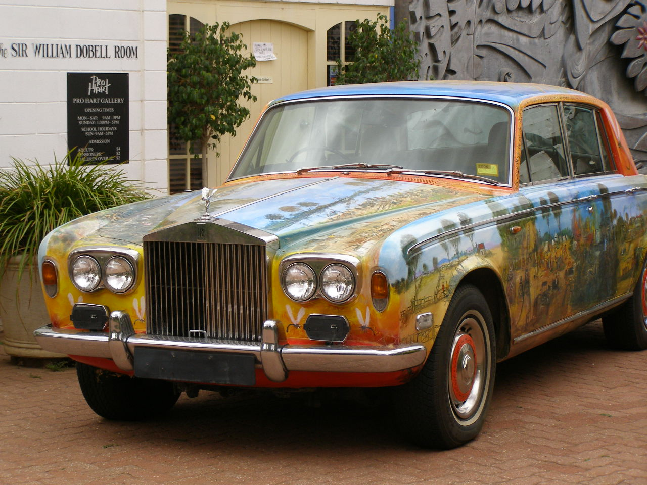 Rolls Royce painted by Pro Hart displayed at the Pro Hart Gallery at Broken Hill, New South Wales